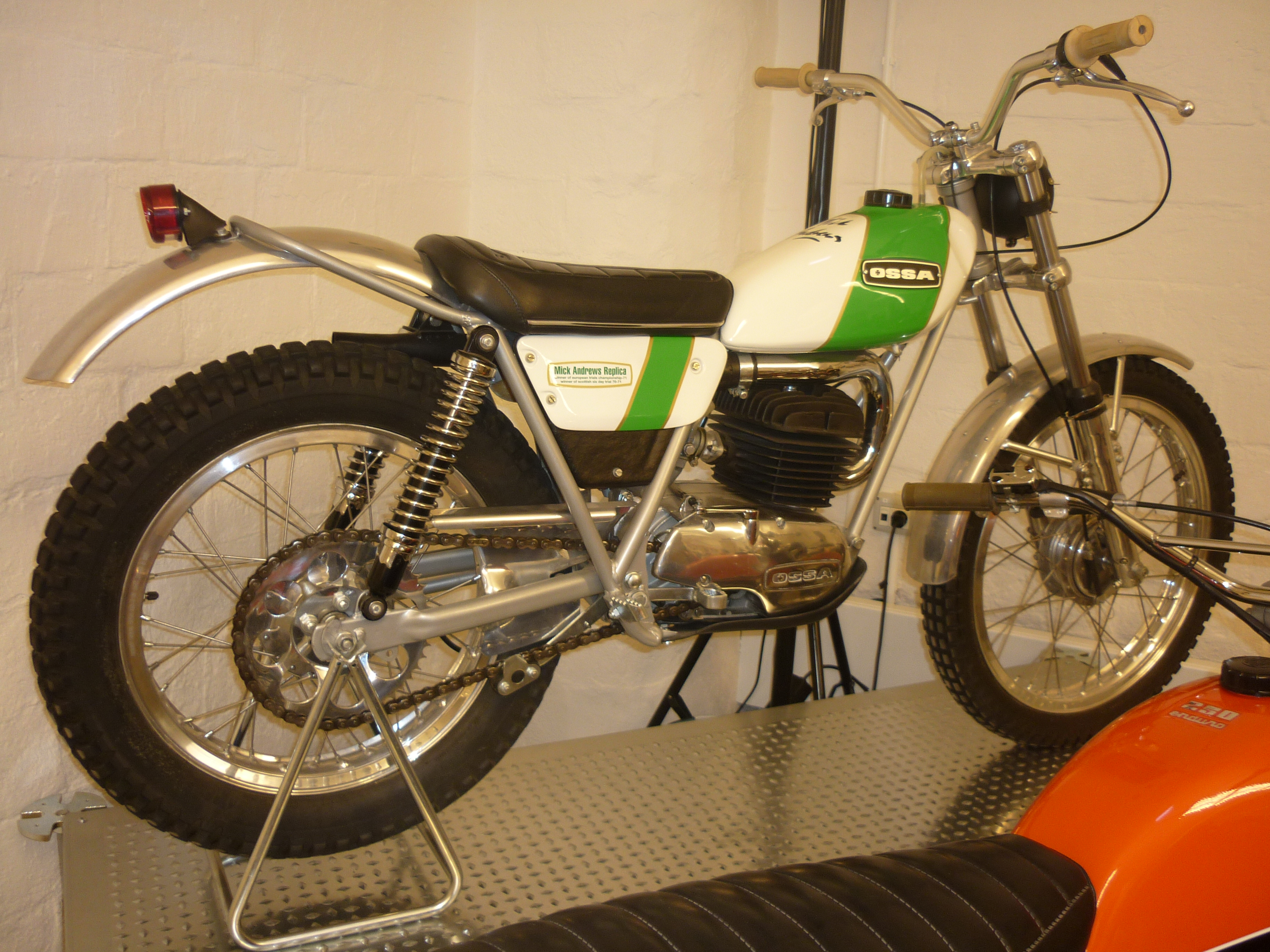 OSSA MAR ("Mick Andrews Replica") 250cc, 1972.Museu de la Moto de Barcelona (Catalonia).